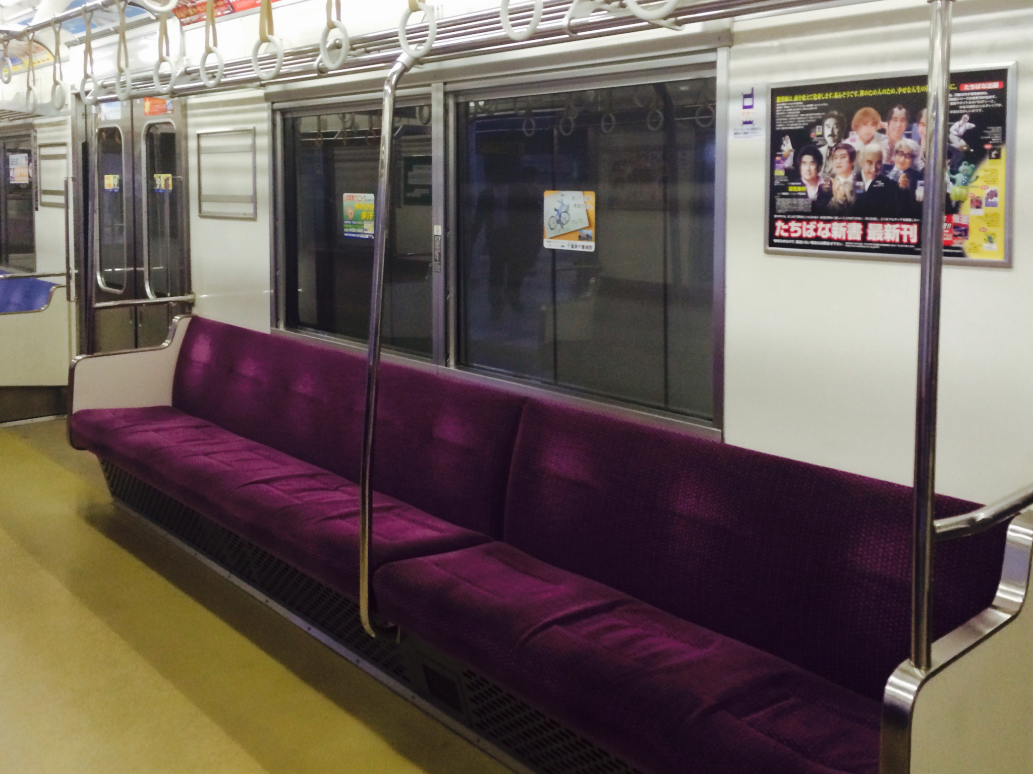 The interior of a Keisei Electric Railway 3700 series EMU